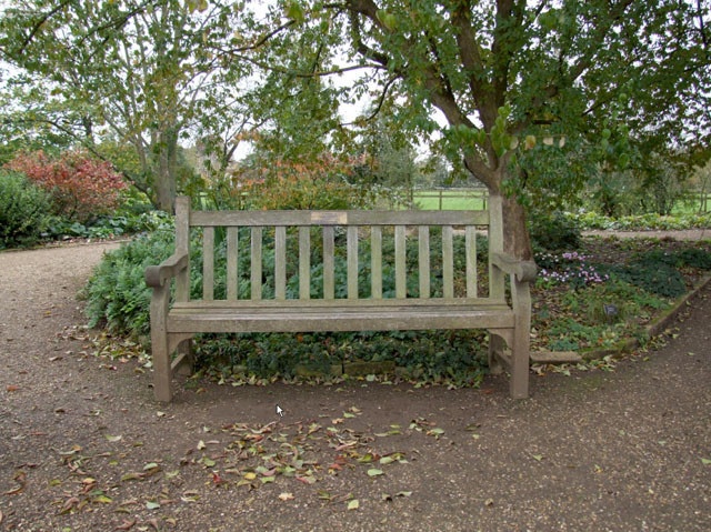 Will and Lyra's bench The bench at Oxford Botanic Garden that Will and Lyra sat on to remember each other, from Philip Pullman's 'His Dark Materials'.